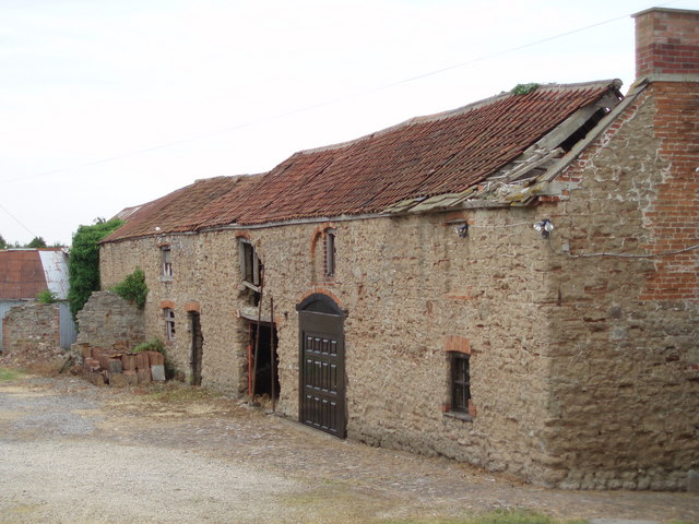 Severn Lodge farm outbuildings.